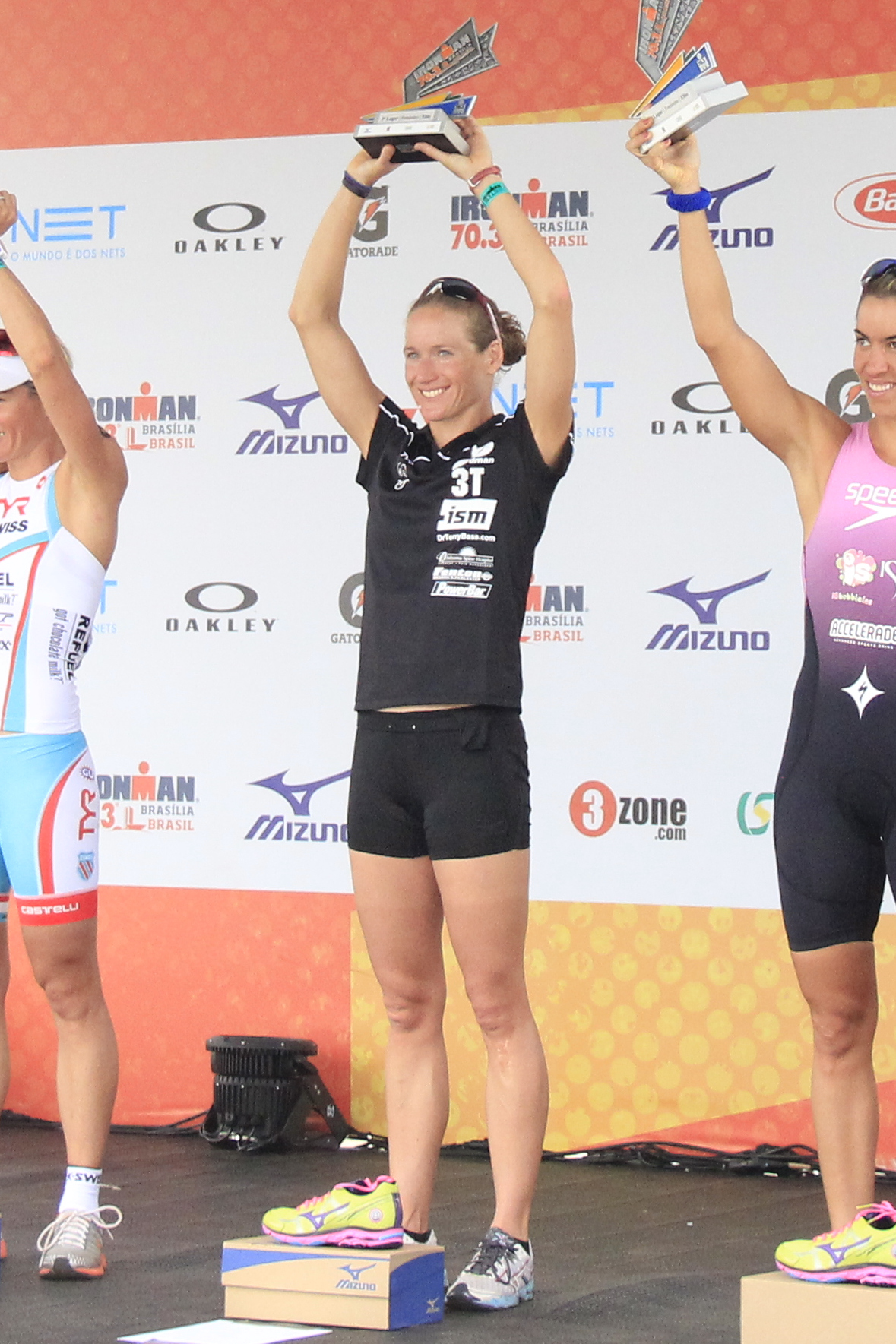 Amanda Stevens at Ironman 70.3 Brasil 2014